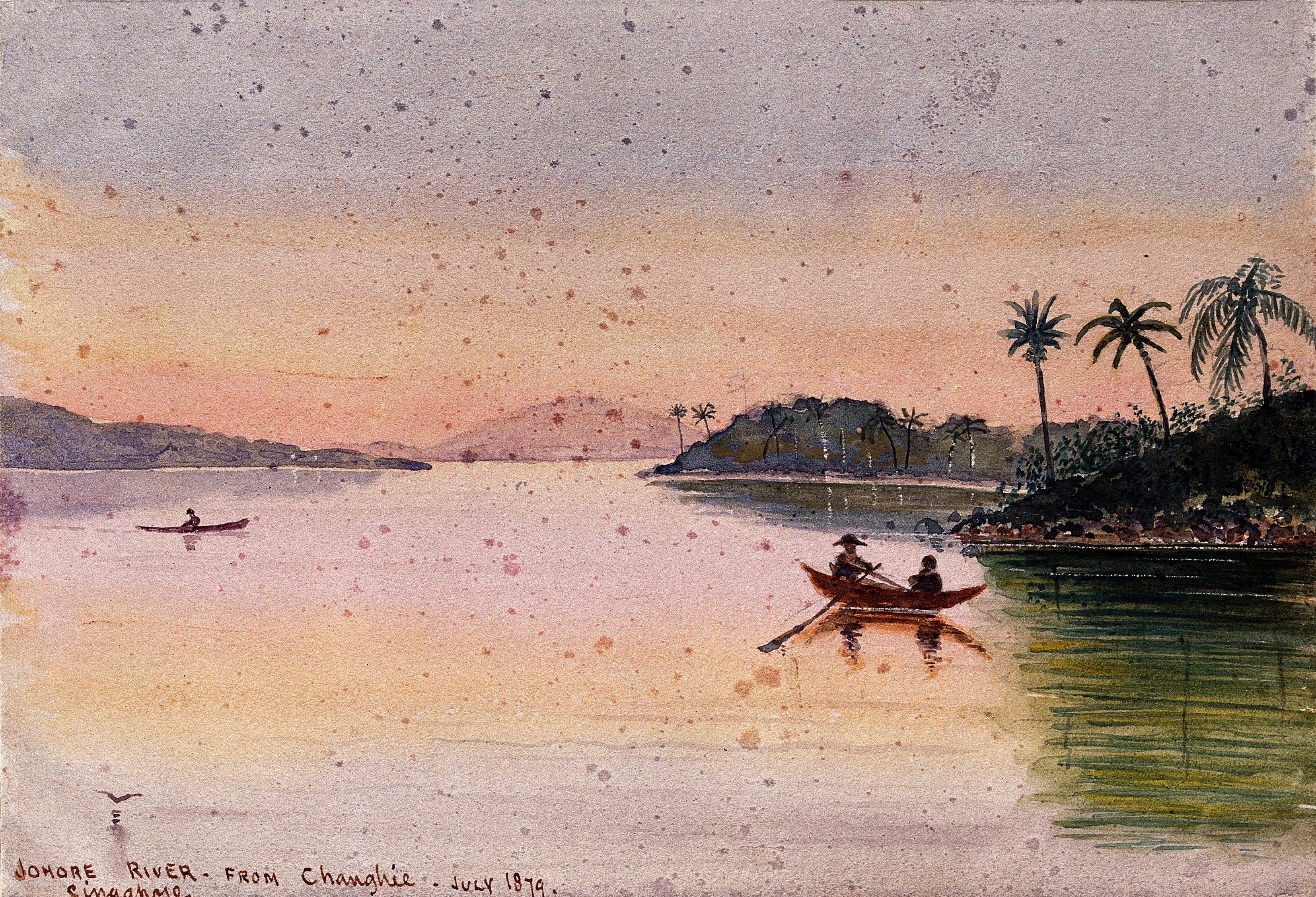 A watercolour painting of people out in rowing boats on the Johor River, Johor, Malaysia, in the evening, seen from Changi, Singapore.